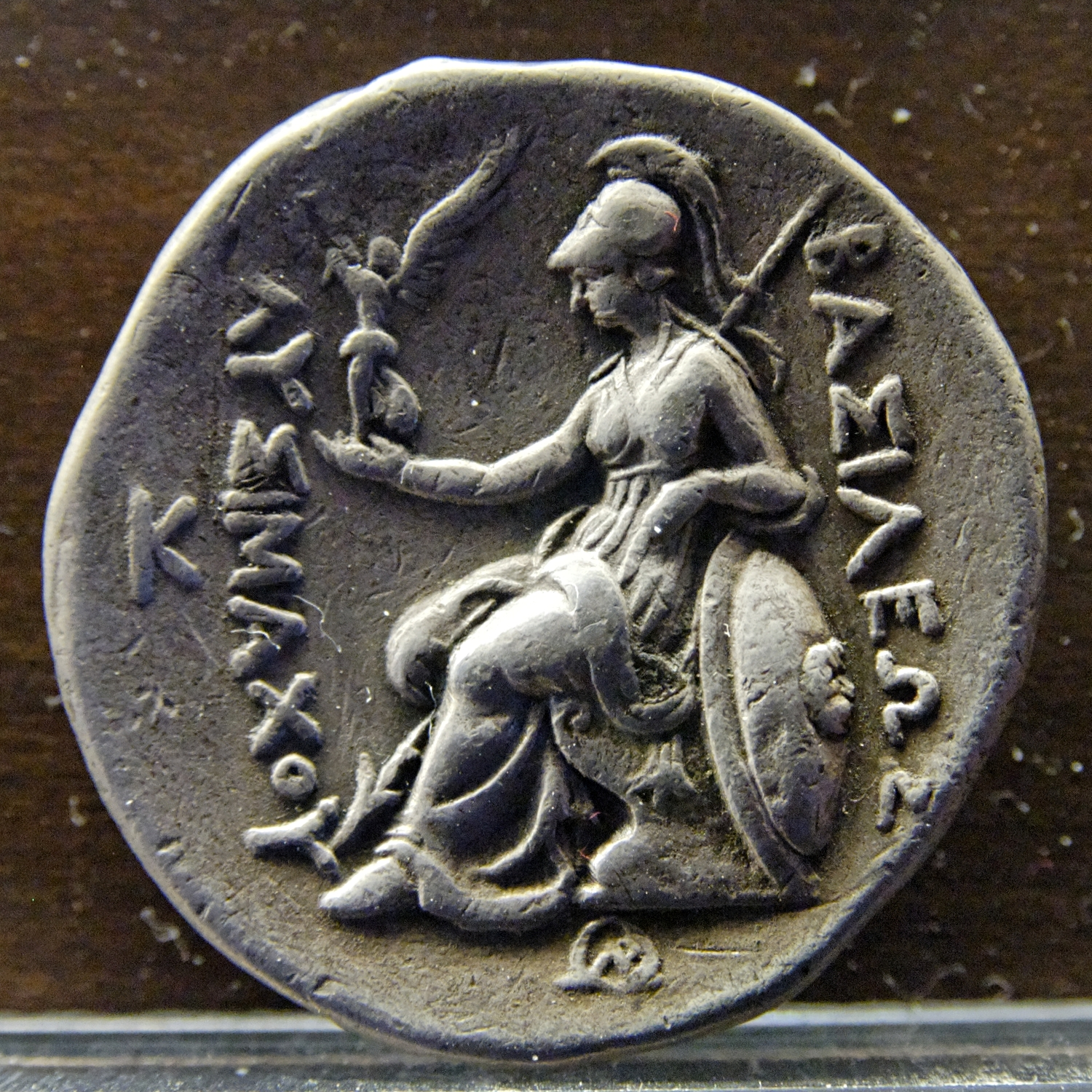 Helmeted Athena Nikephoros enthroned left, her right hand holding winged Nike crowning Lysimachus' name, leaning on a shield propped against throne, transverse spear in background. Silver tetradrachm from the kingdom of Thrace, reign of Lysimachus (305–281 BC).